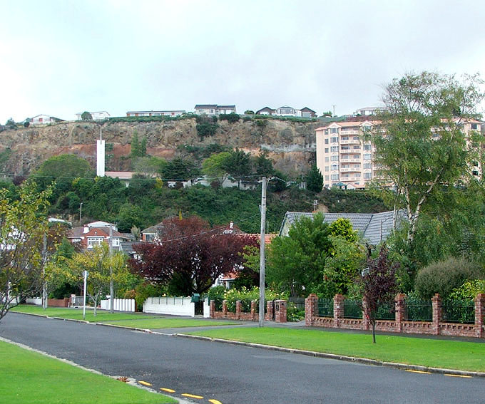 Forbury, Dunedin, New Zealand. The Frances Hodgkins Retirement Village and the spire of Dunedin's meetinghouse of The Church of Jesus Christ of Latter-day Saints are visible against the cliffs of the former quarry that lies to the west of Forbury Road. Photograph by James Dignan (User: Grutness), March 9, 2009